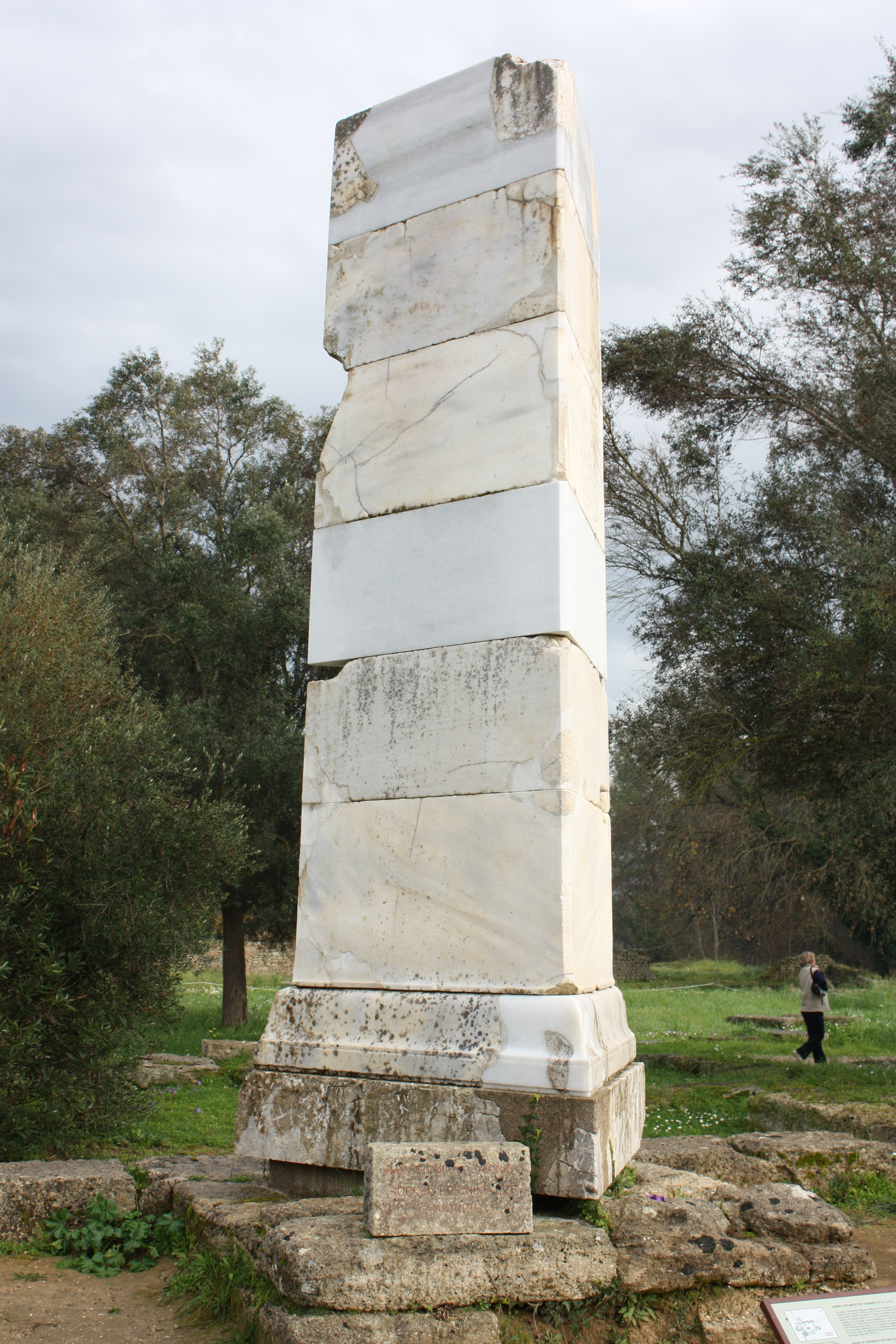 Base of Nike of Paionios statue in Olympia, Greece.